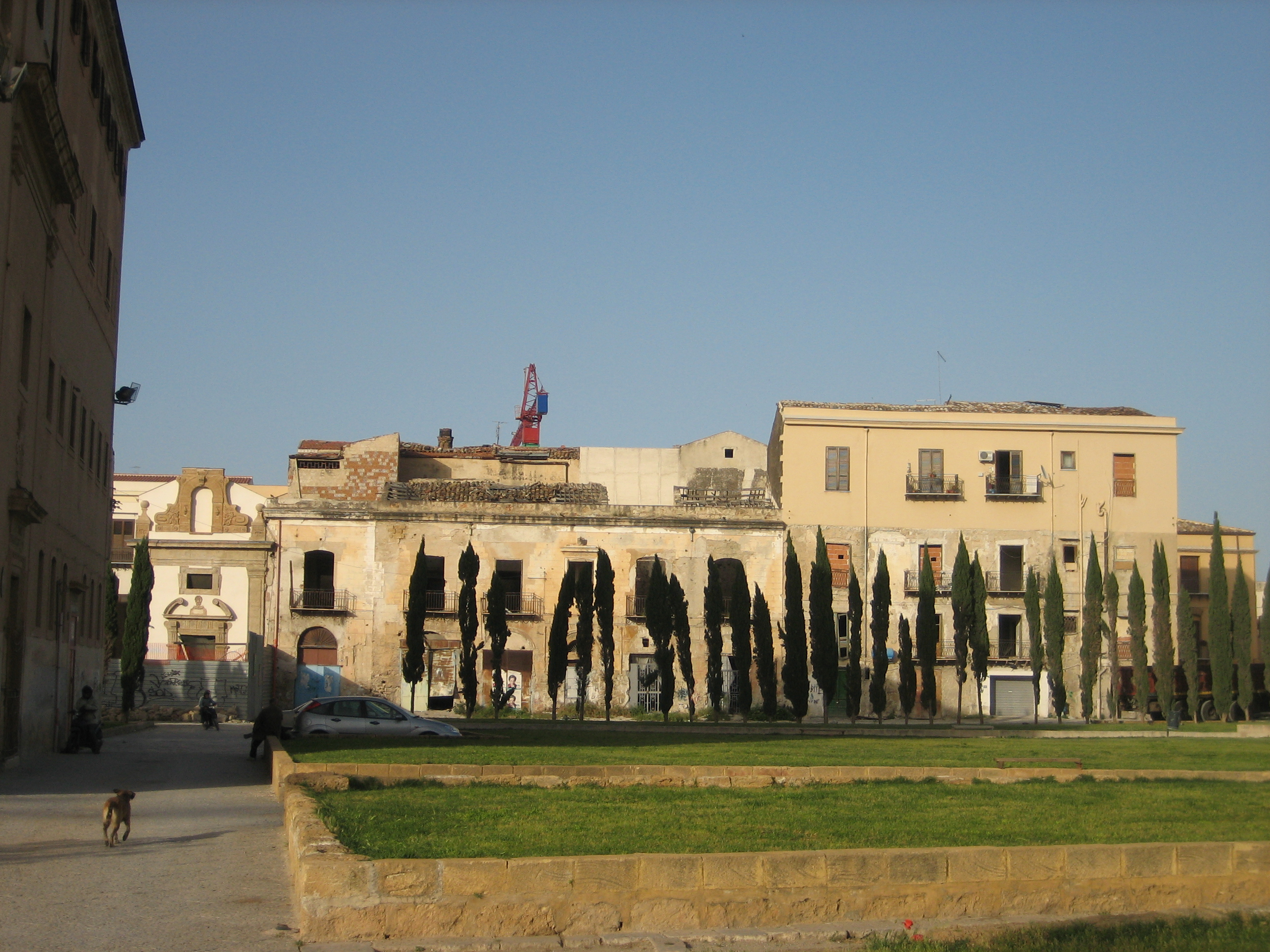 Piazza magione in historical Kalsa part of Palermo (Italy). On the left side Via Francesco Risi and in the background Via Vetriera.